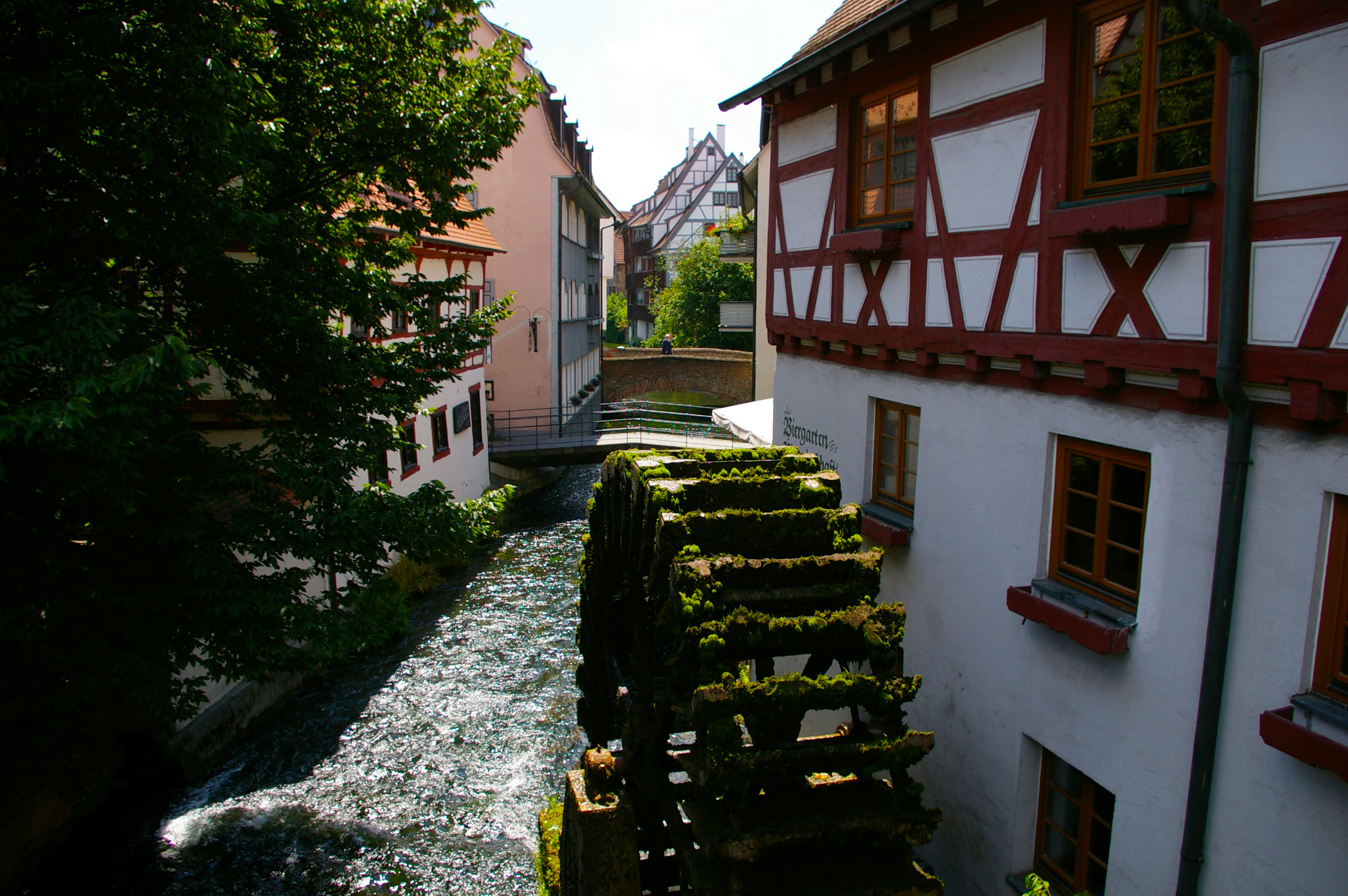 Blau river in Ulm, as seen from the Neue Straße.